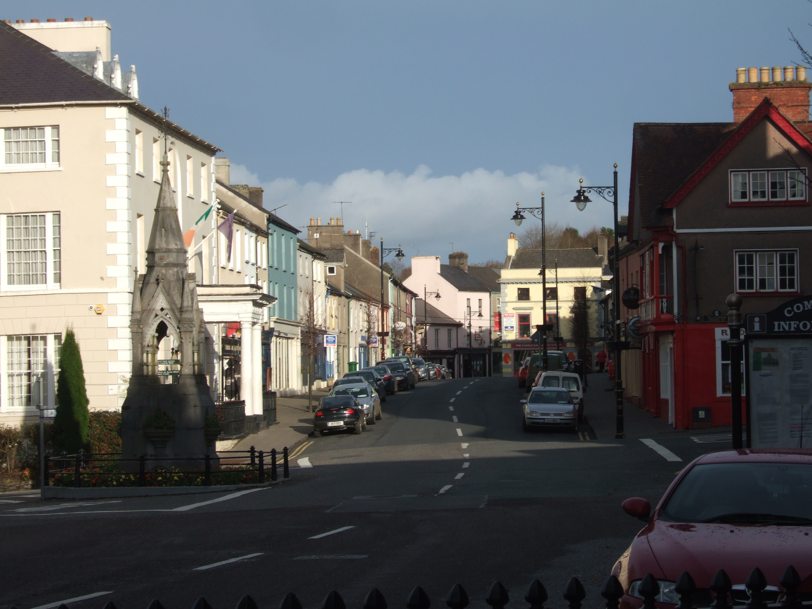 The centre of the town Lismore, with shops and roads